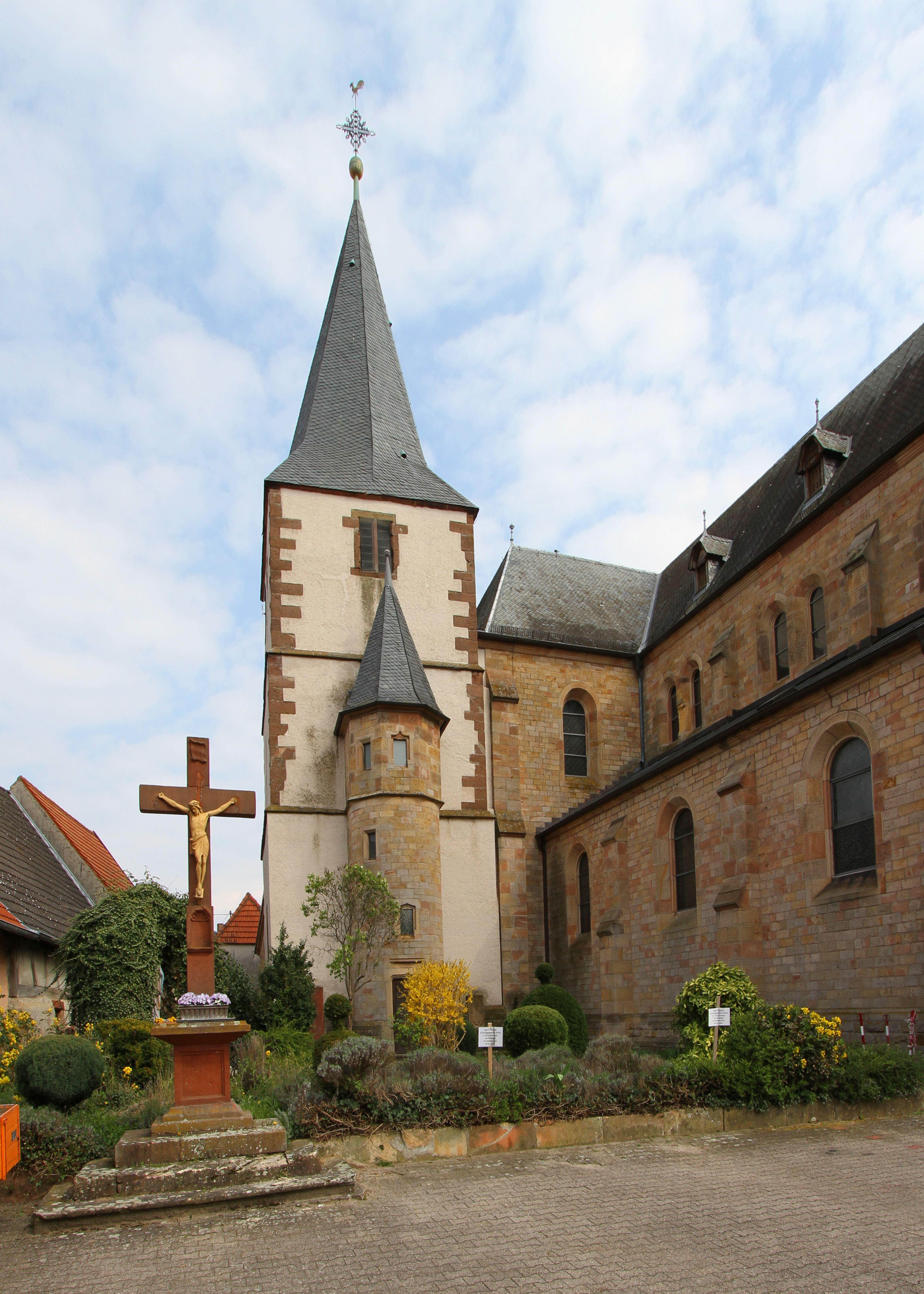 Church of Saint George in Landau in der Pfalz-Arzheim.